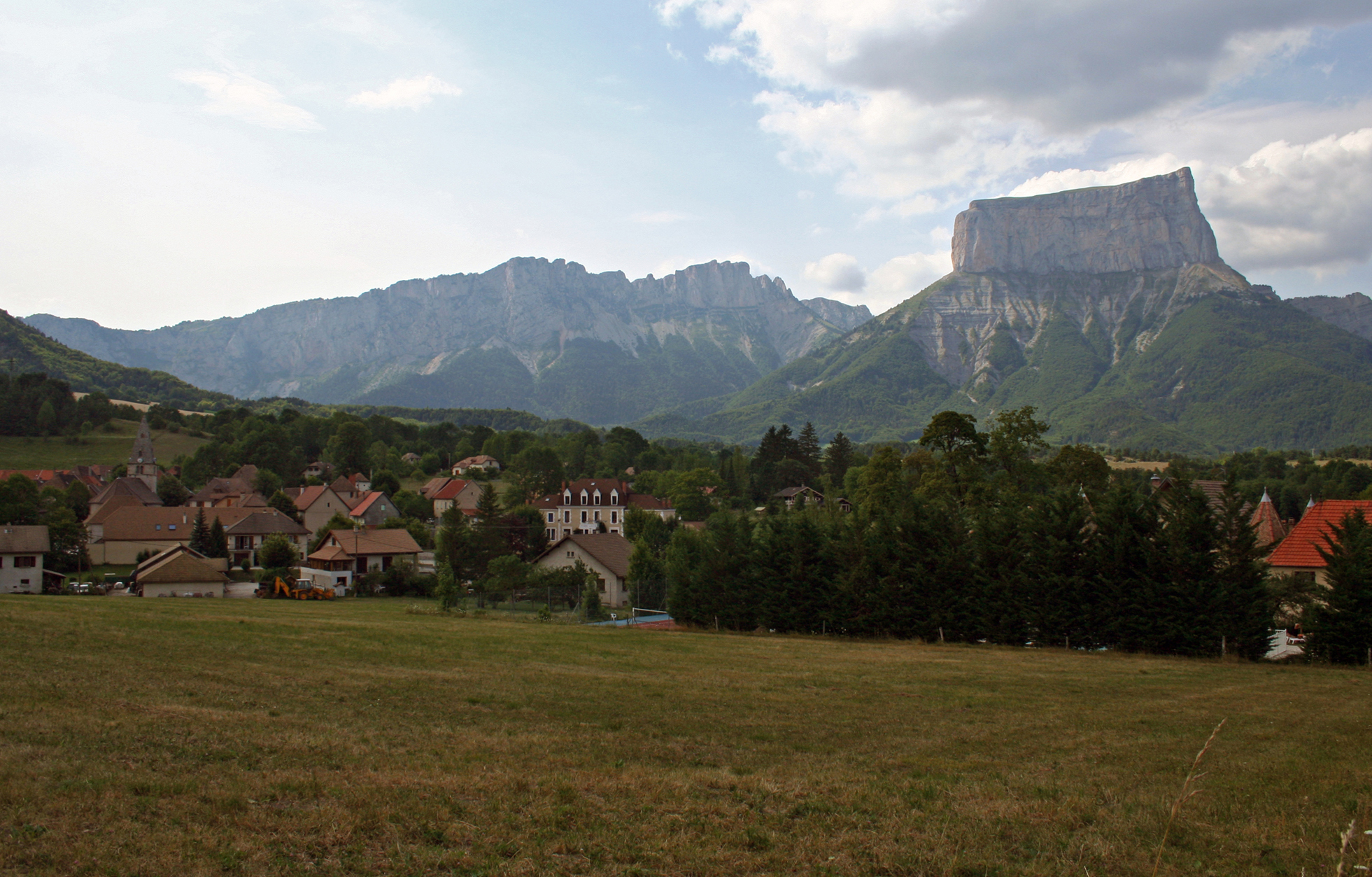 Mont Aiguille (Needle Montain) as seen from the Trieves. Mont aiguille is the mesa like mountain on the right. The cliffs on the left, called Rochers du parquet are the eastern limit of the Vercors plateau. The village of Chichilianne is visible in the foothills.